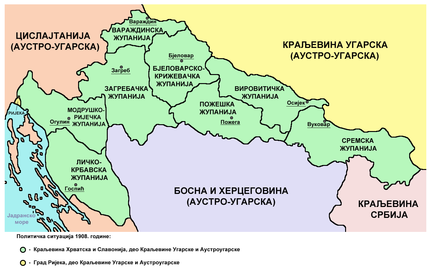 Counties of the Kingdom of Croatia-Slavonia and City of Fiume in 1908.